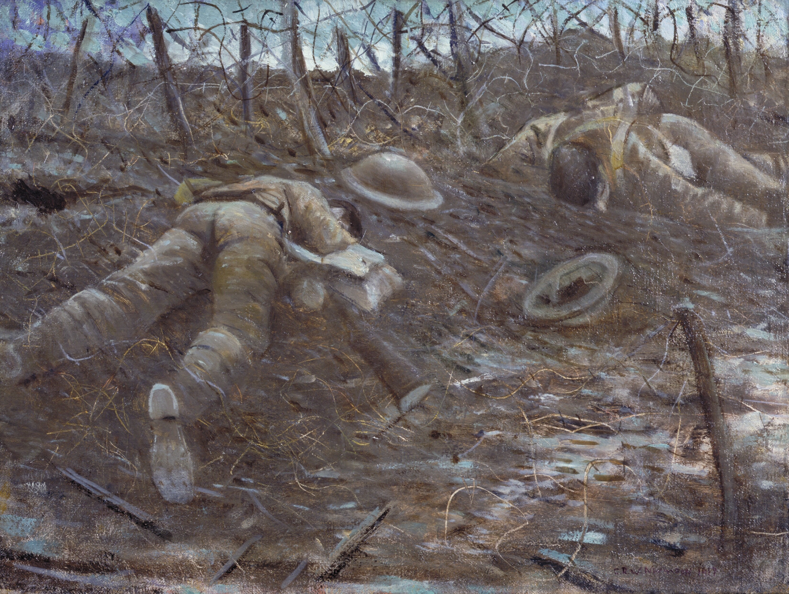 Paths of Glory image: The corpses of two dead British soldiers lying face down in the mud among barbed wire. Their helmets and rifles lie in the mud next to them.